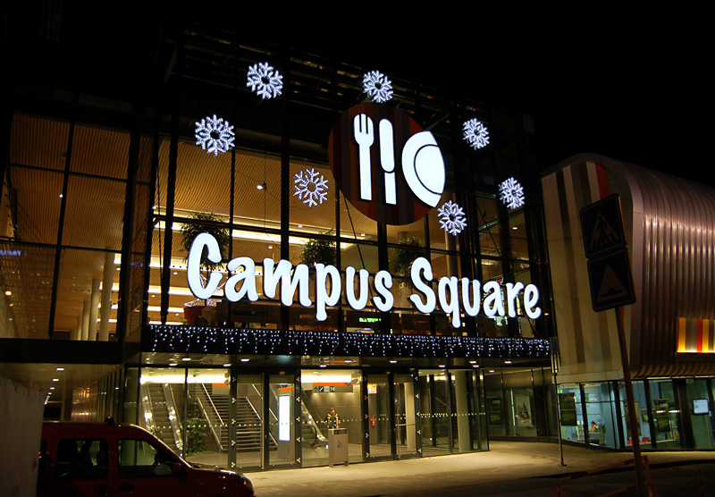 Shopping center Campus Square in neighbourhood of University campus Brno - Bohunice.